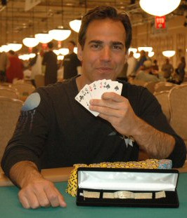 Cliff Josephy (JohnnyBax)